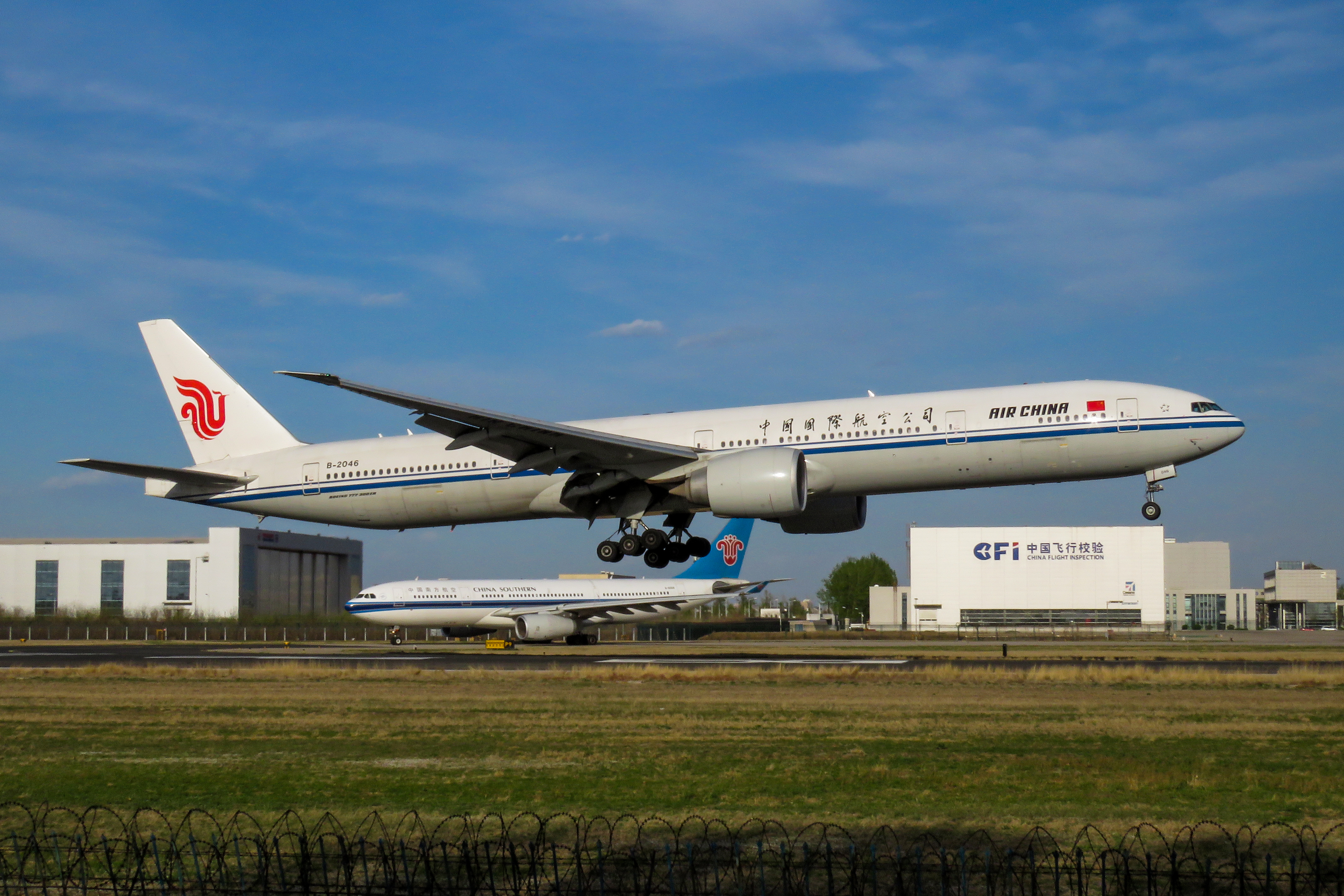 Air China 1416 from Chengdu. Here comes this In the Mood for Love jet again, this time under a bluer sky in Tiejiangying.